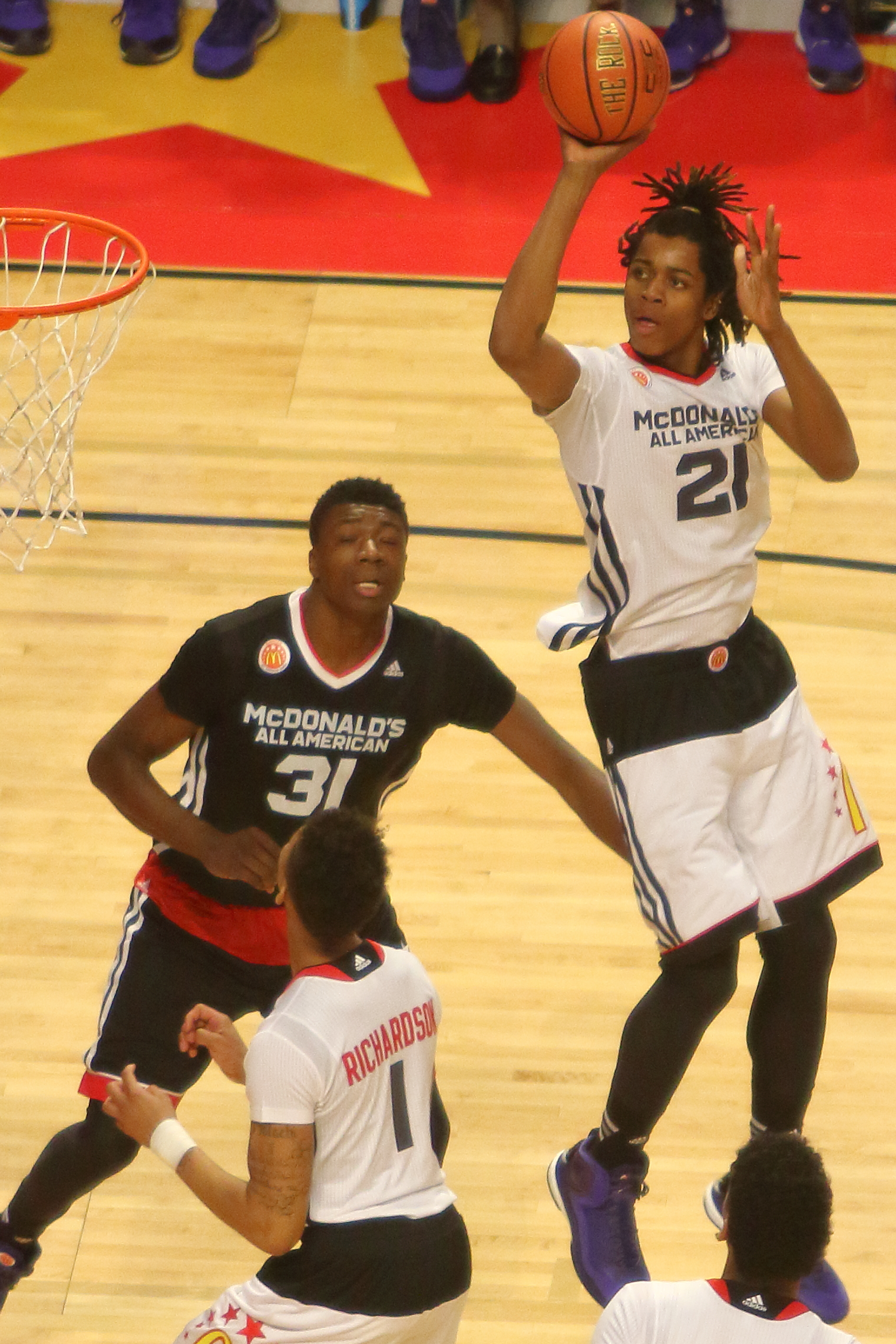 Deyonta Davis over Thomas Bryant in the w:2015 McDonald's All-American Boys Game